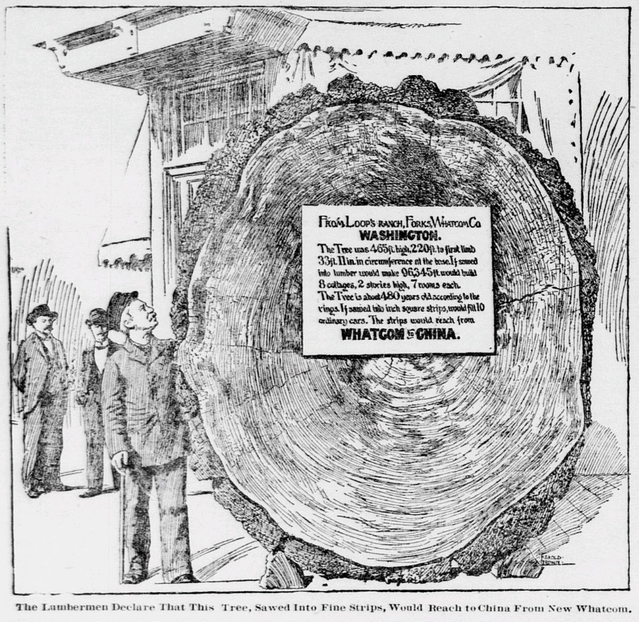 Engraving of a Douglas fir cut down at Loop's Ranch, Whatcom County, Washington published in The Morning Times, February 28, 1897